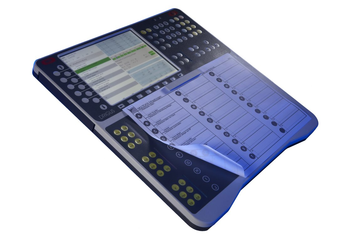 Drigus Multidata 6 Time Study System